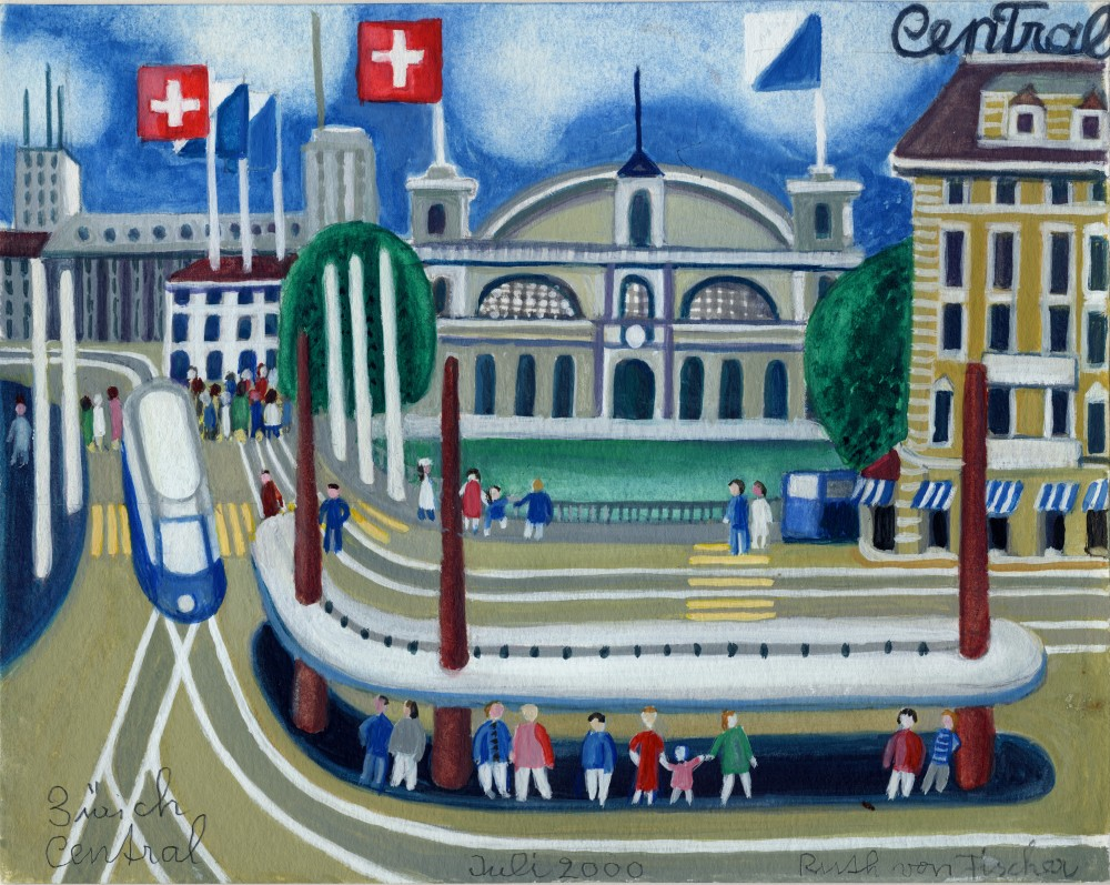 "Zürich Zentral": Gouache by Ruth von Fischer, 2000.